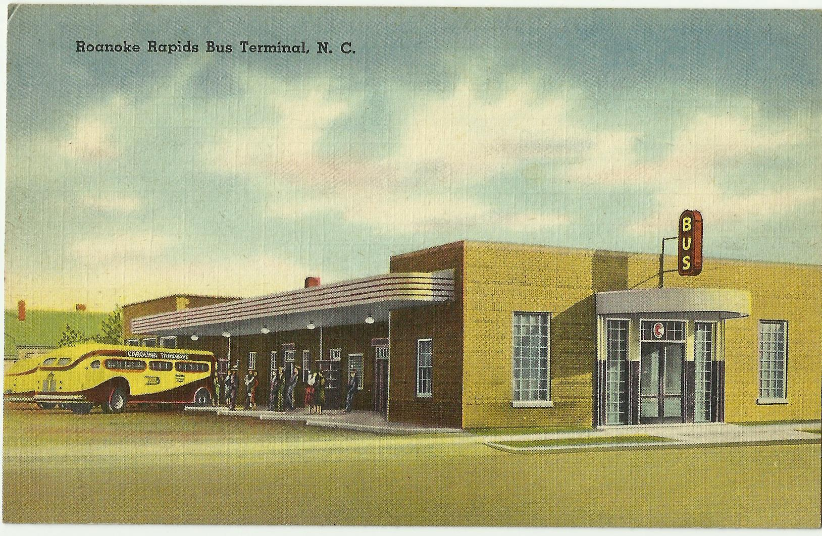 Postcard from addition to the Massengill Collection, PhC.184, State Archives of North Carolina, Raleigh, NC